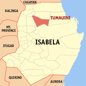 Map of Isabela showing the location of Tumauini